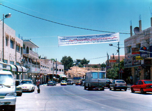 Shoubak downtown